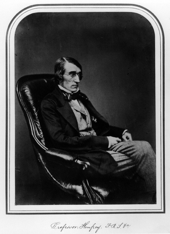 Photograph of Arthur Henfrey (1819–1859), English botanist.